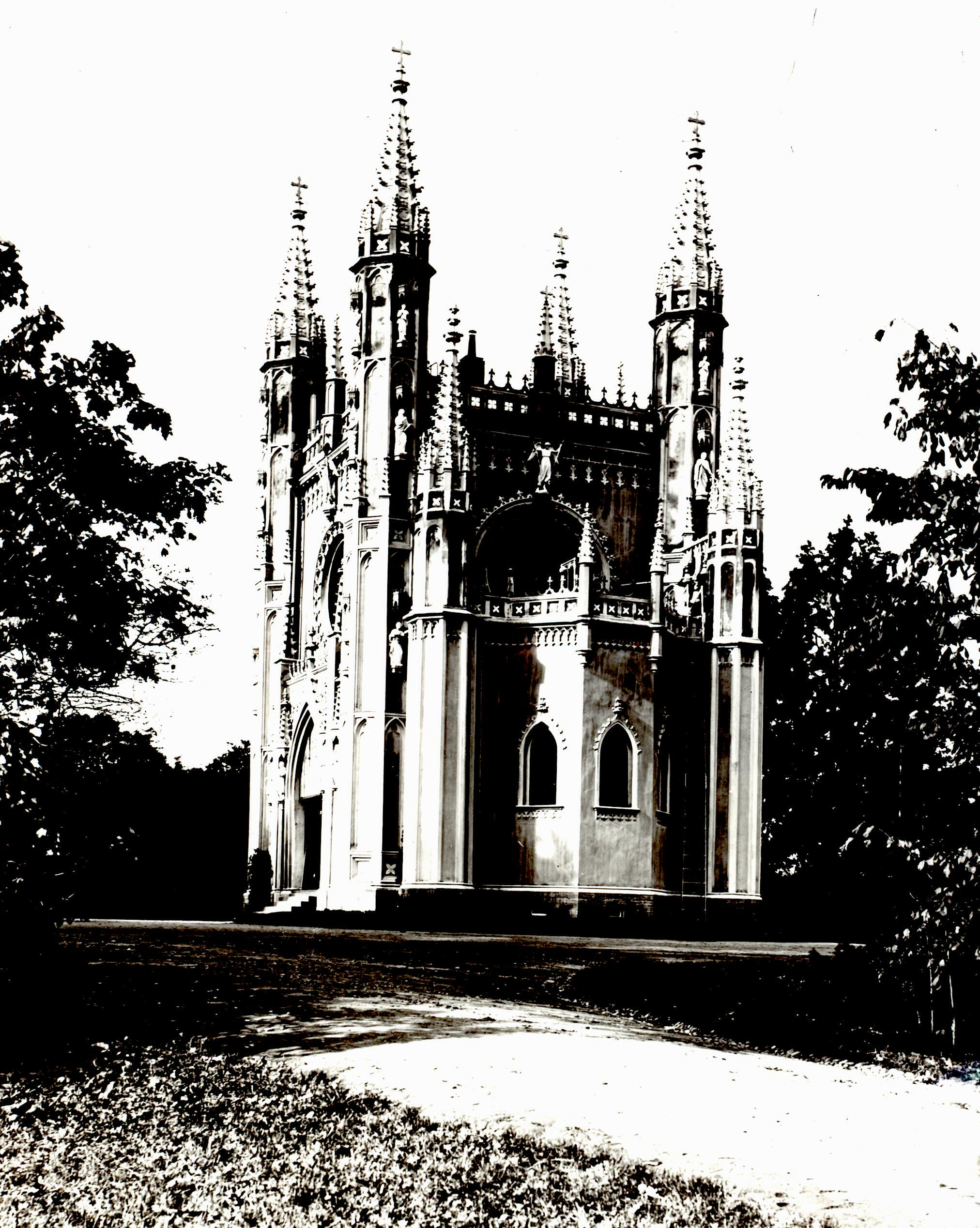 Peterhof (Russia)